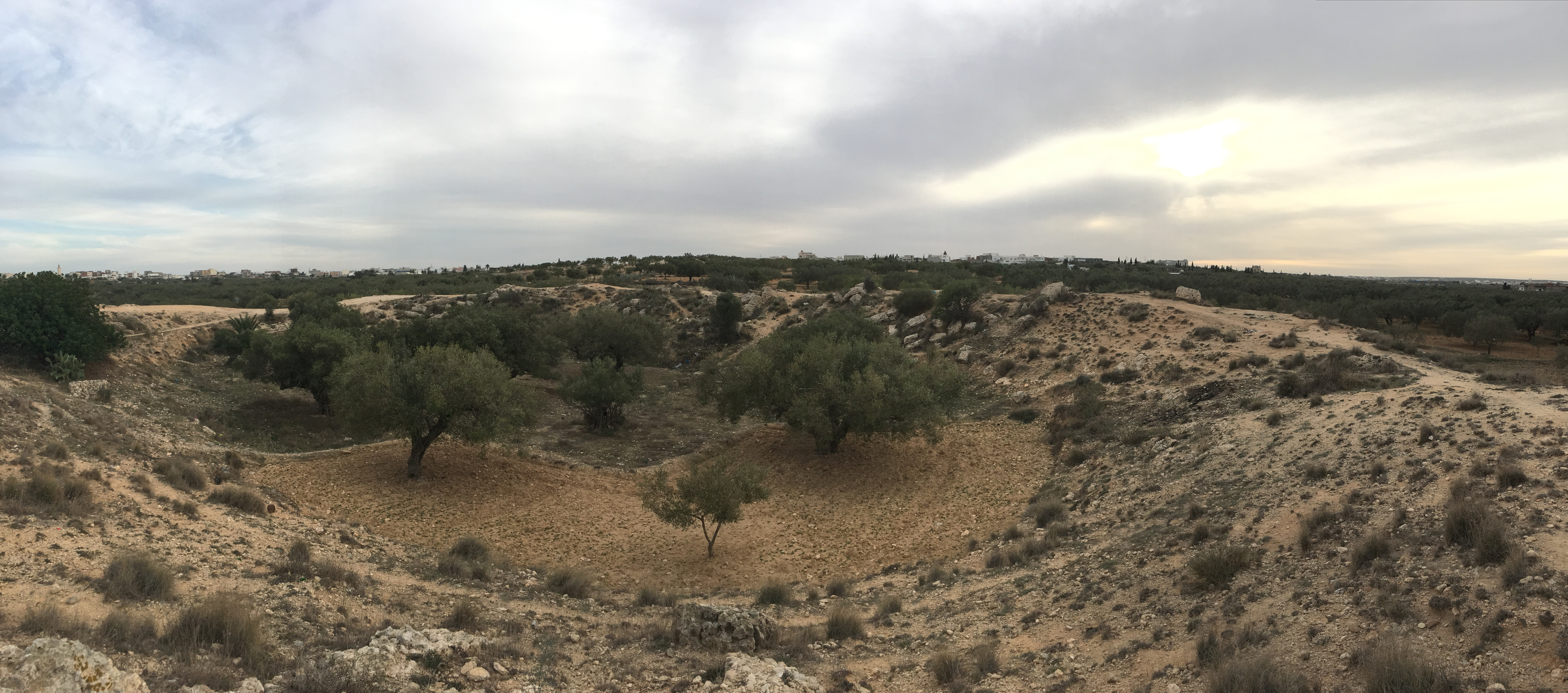 Amphitheatre of Leptis Minor 2018